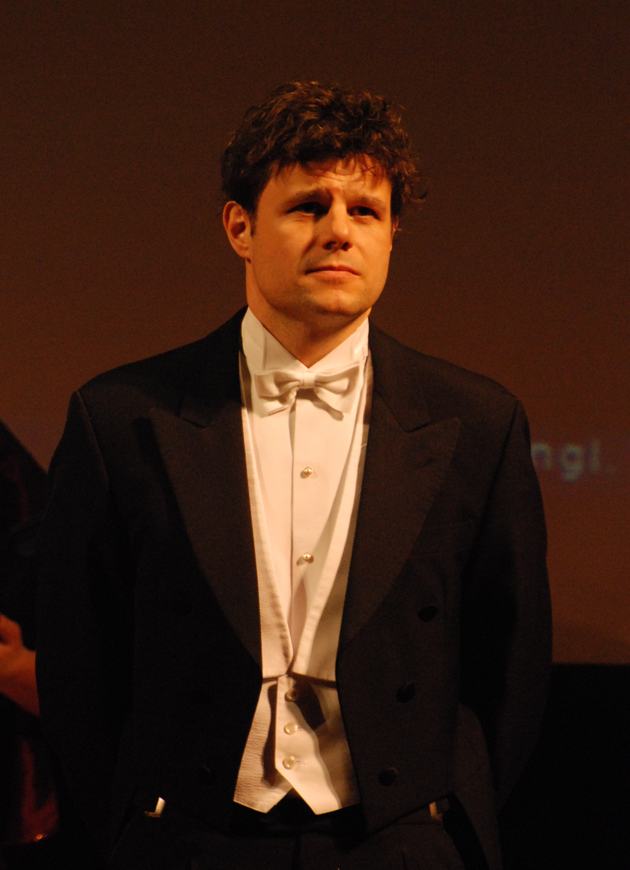 Ceremonial Meeting of the Royal Swedish Academy of Sciences: award ceremony of the Göran Gustafsson prize 2010: William Agace